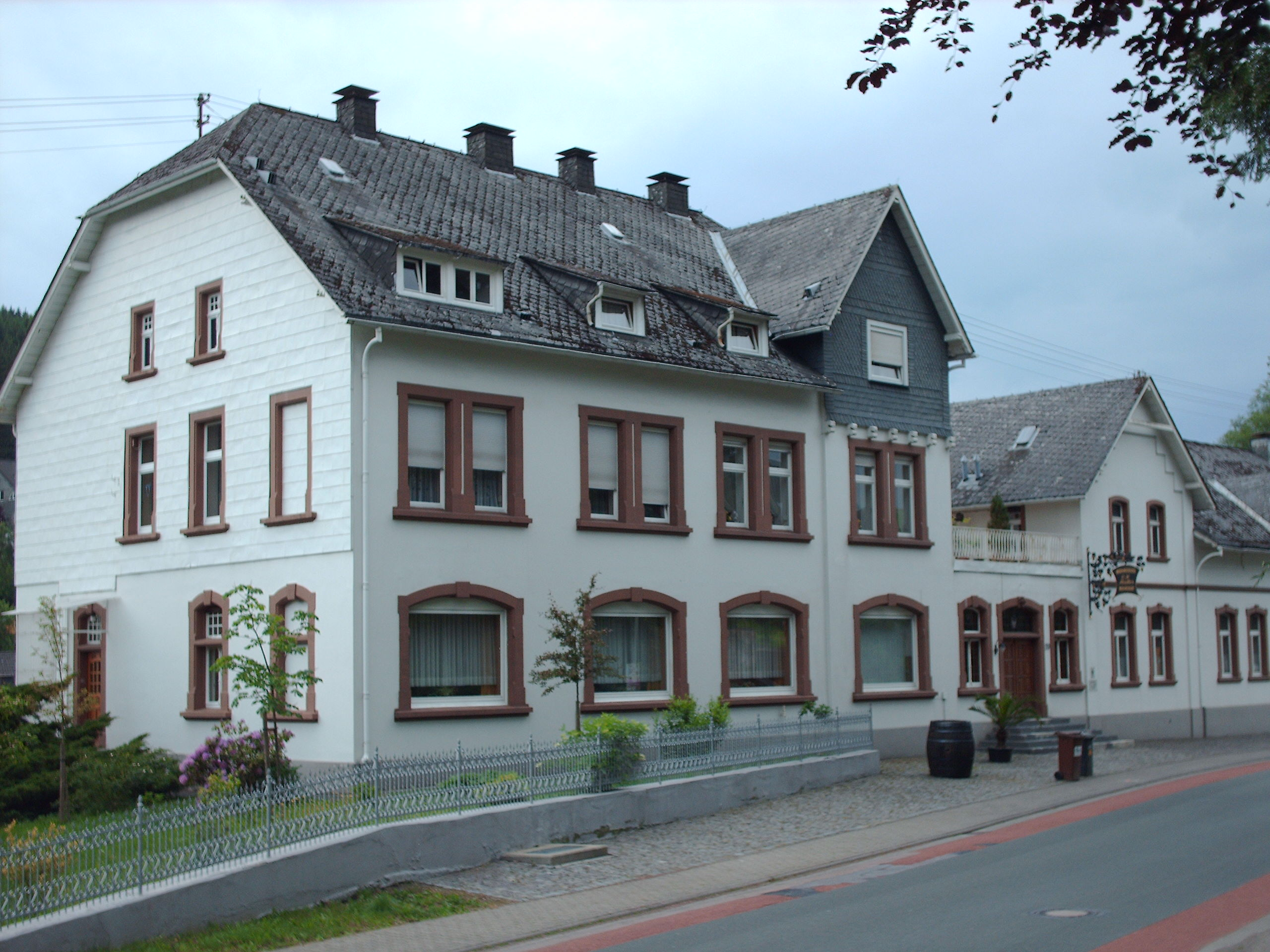 Müller Winery in Flape, Kirchhundem, Germany check usage